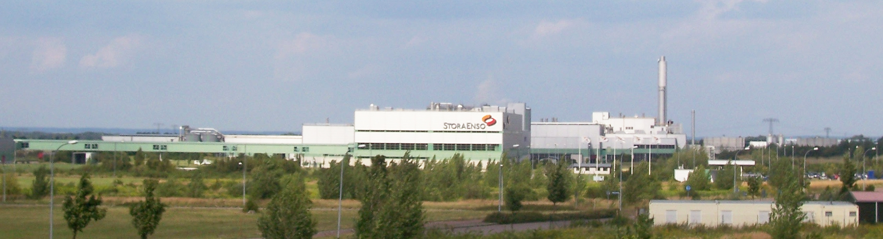 Stora Enso paper factory Eilenburg